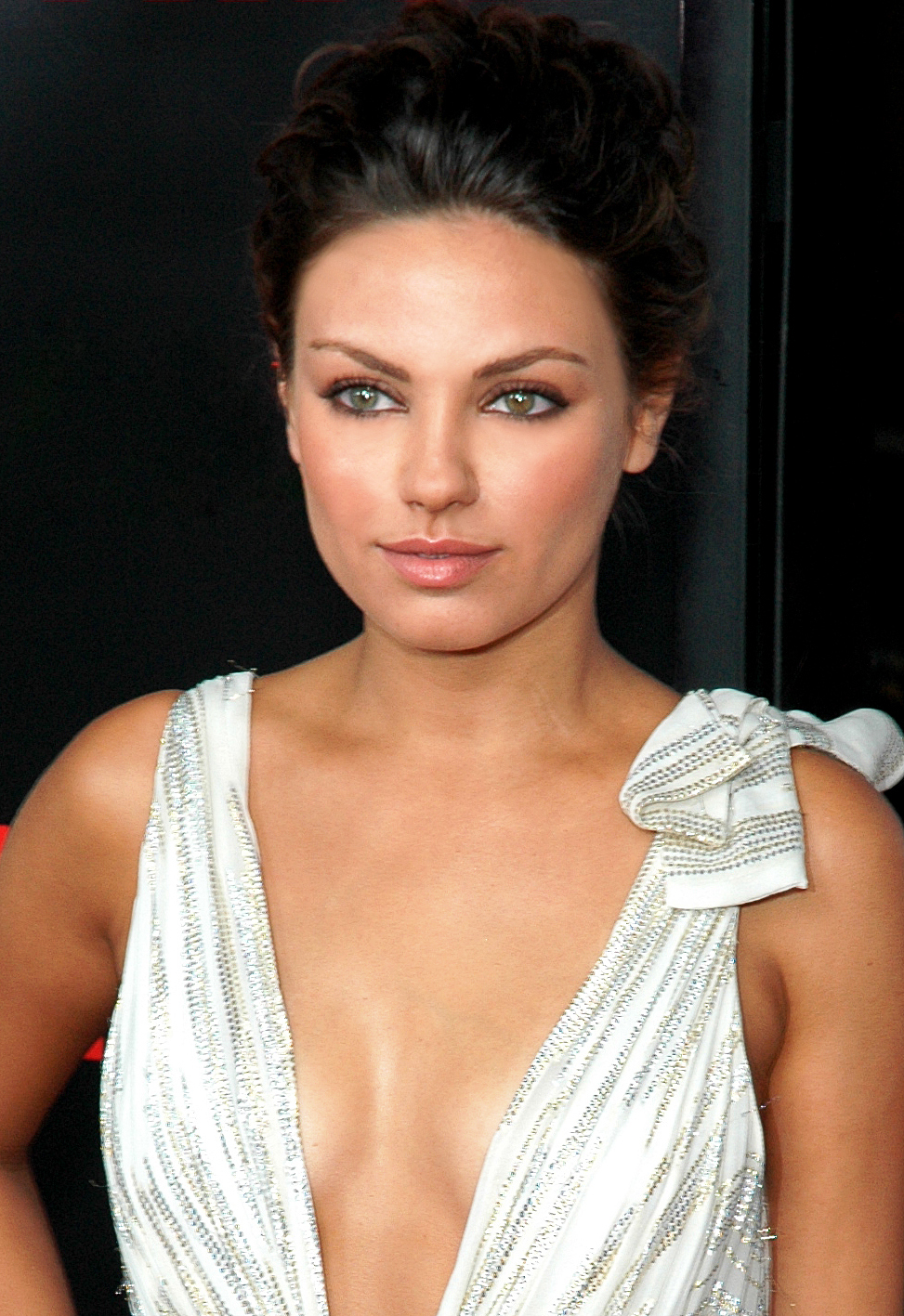 Mila Kunis attending the Premiere of "Max Payne" Hollywood, CA 10/13/2008